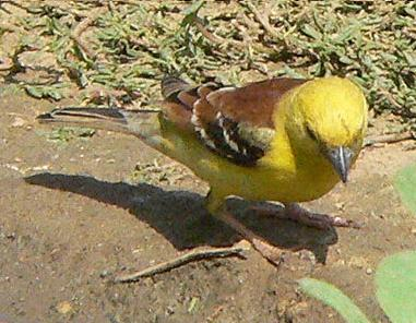 Male Sudan Golden Sparrow photographed near Aiterba, Red Sea State, Sudan